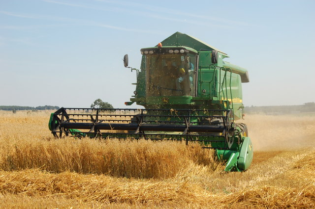 Harvest Time Large fields and big machines make light work